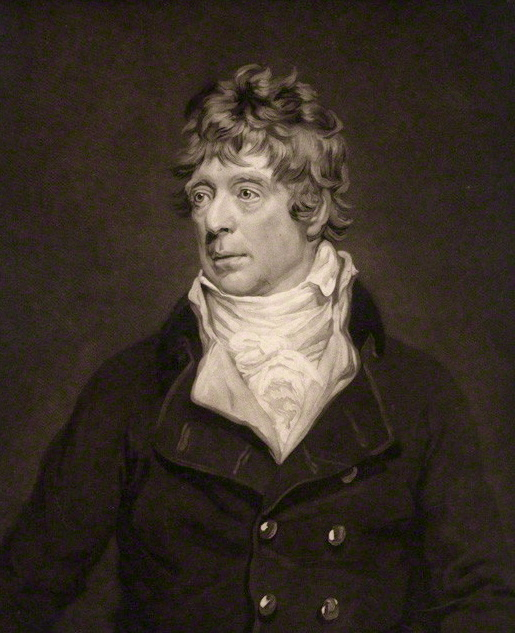 Jesse Foot (1744–1826), an English surgeon and biographer.